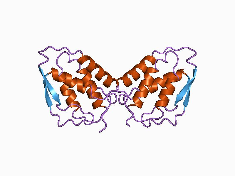 Cartoon representation of the molecular structure of protein registered with 1csg code.